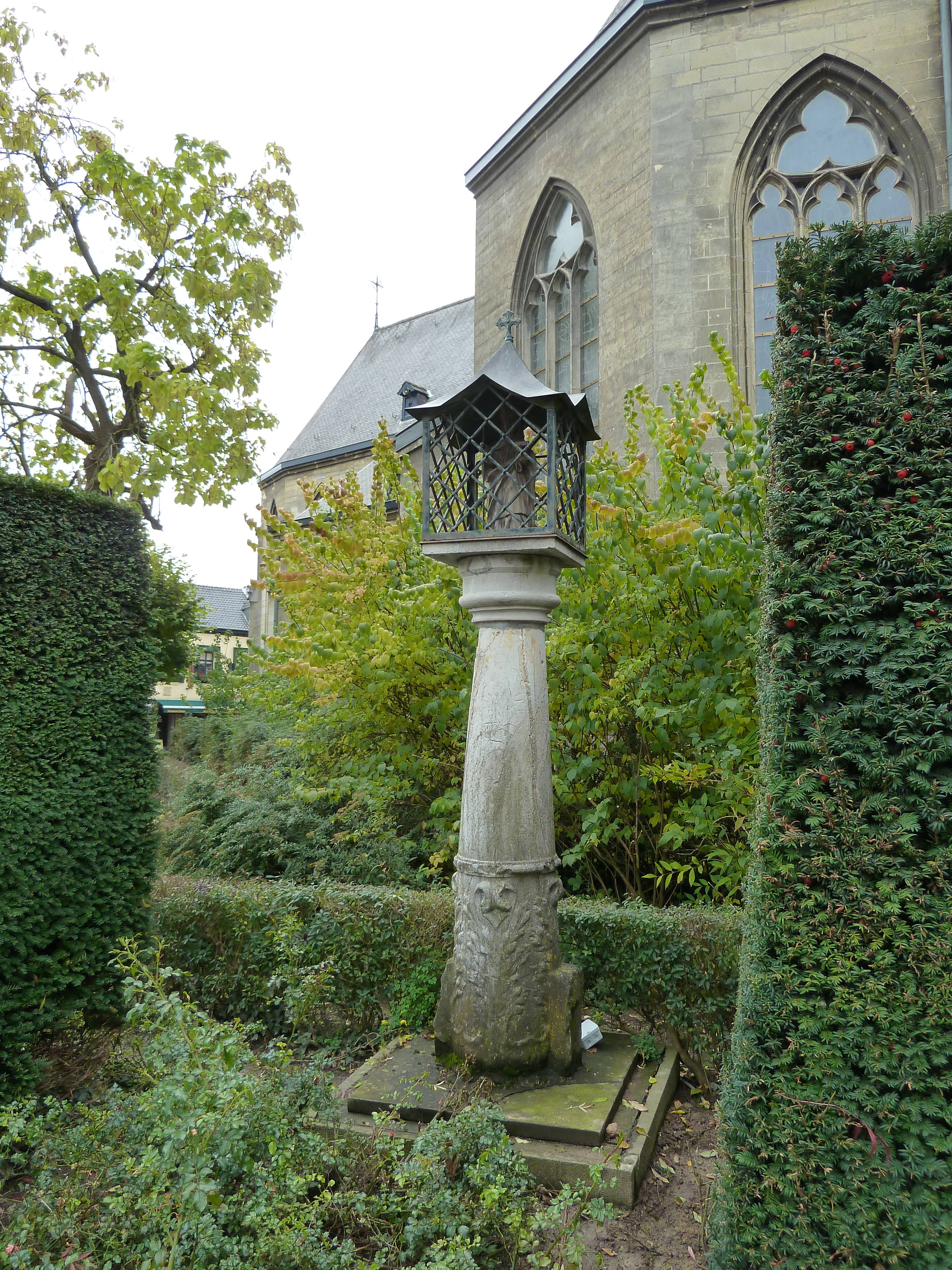 "Perroen" with Nicolaas-statue, Valkenburg, Limburg, the Netherlands